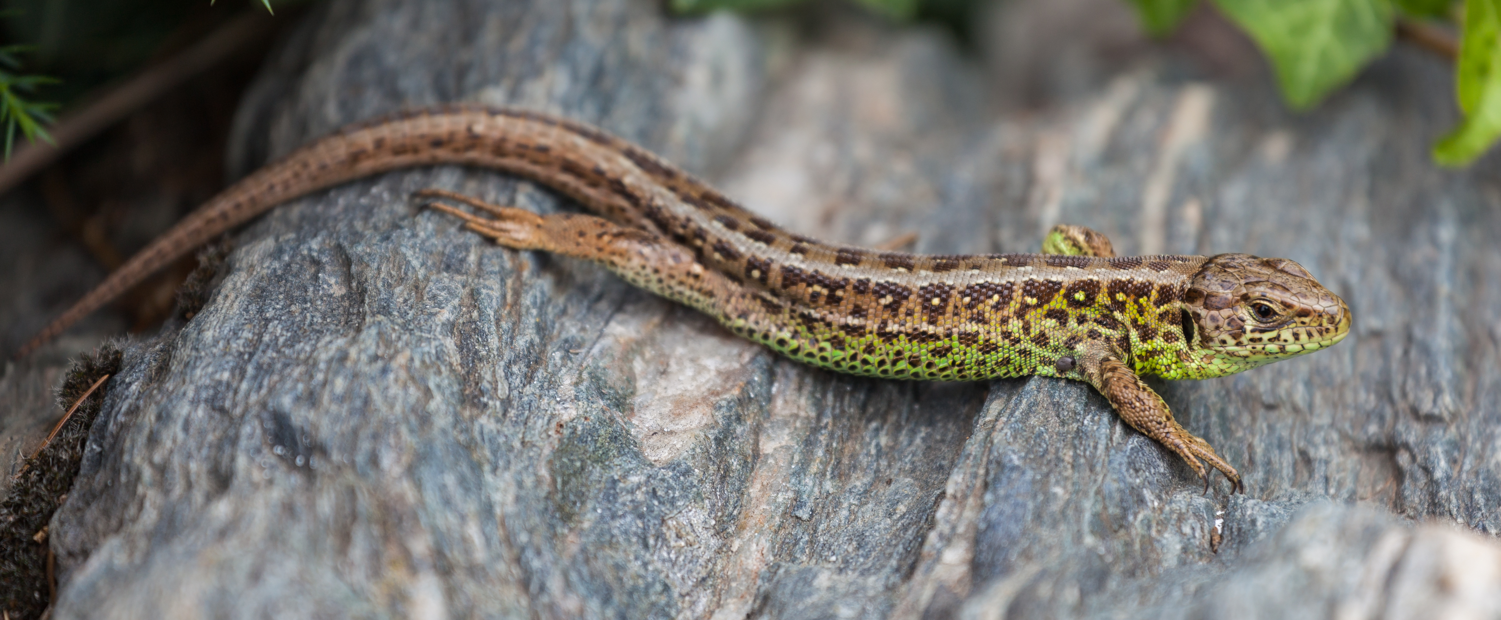 Sand Lizard (Lacerta agilis), Munich Botanical Garden, Germany